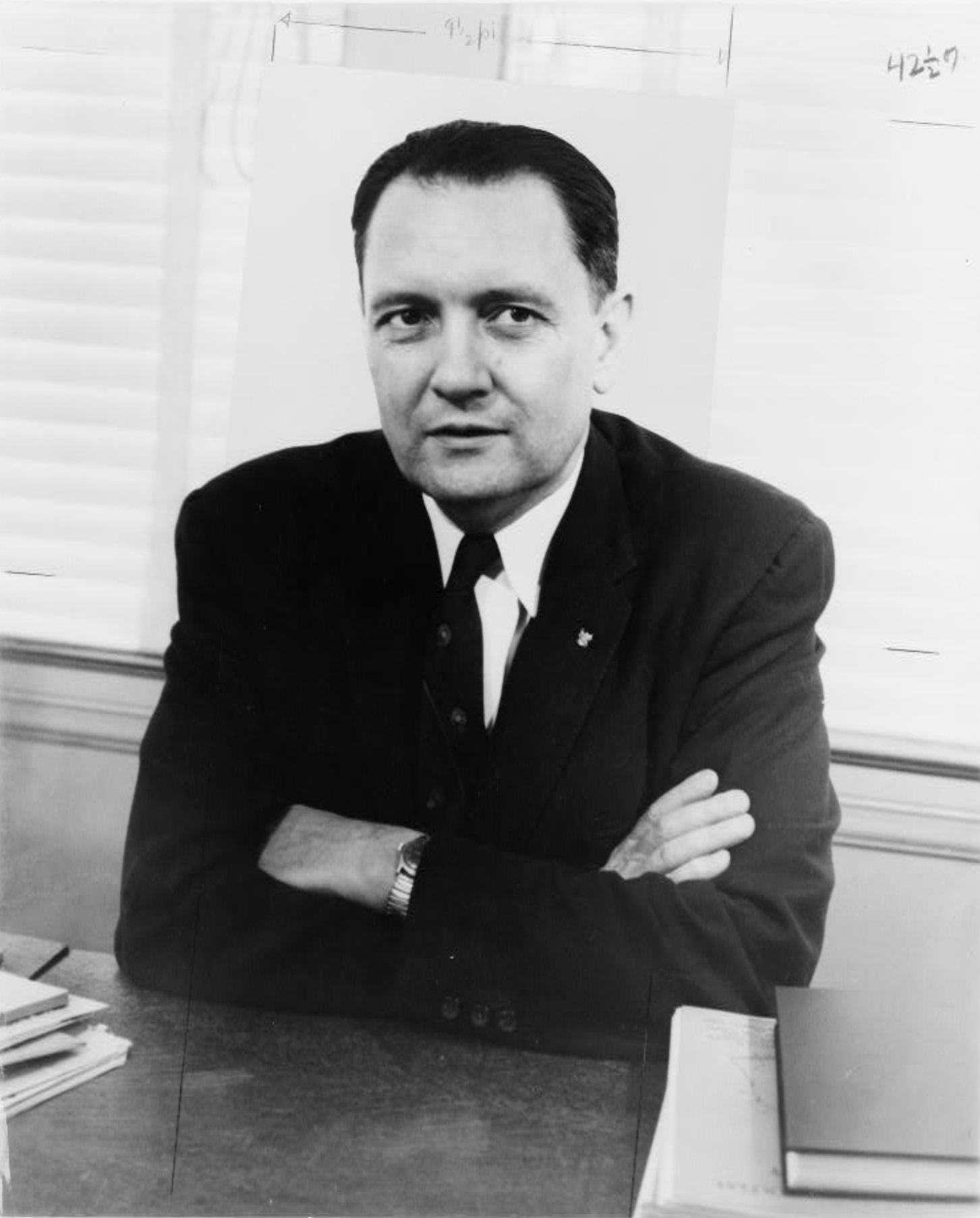 Carl A. Elliott, half-length portrait, facing slightly left, arms folded